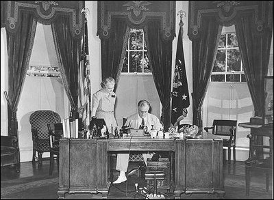 While working at his desk in the Oval Office, which he had moved to its current location in 1934, President Franklin Roosevelt meets with Marguerite Le Hand, his personal secretary.